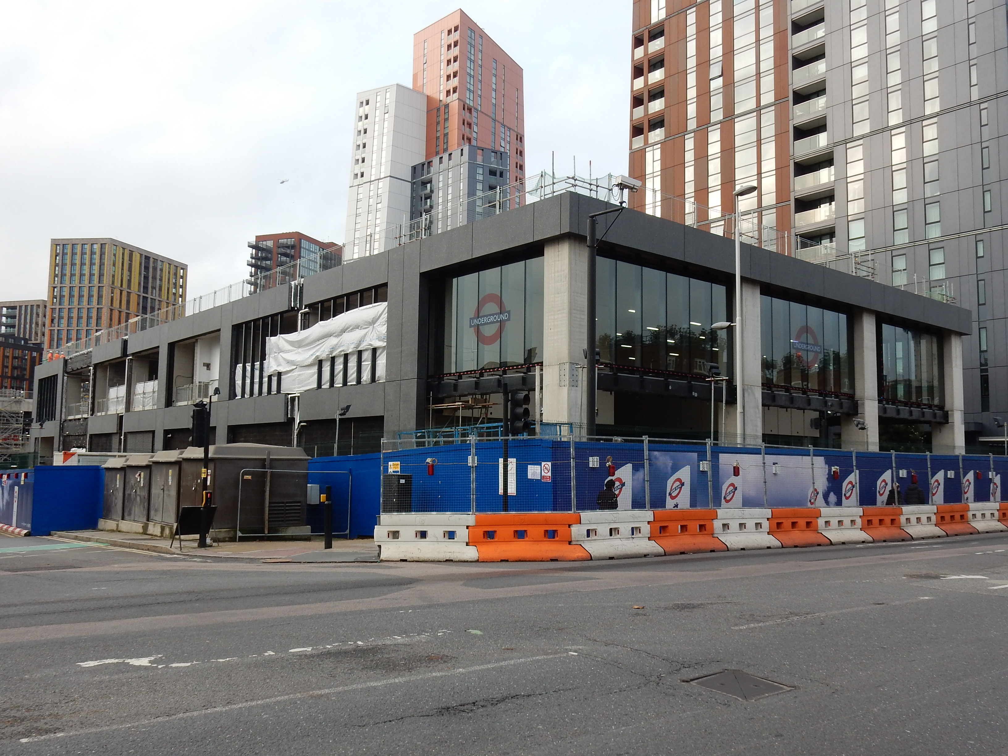 Nine Elms tube station building under construction in October 2019